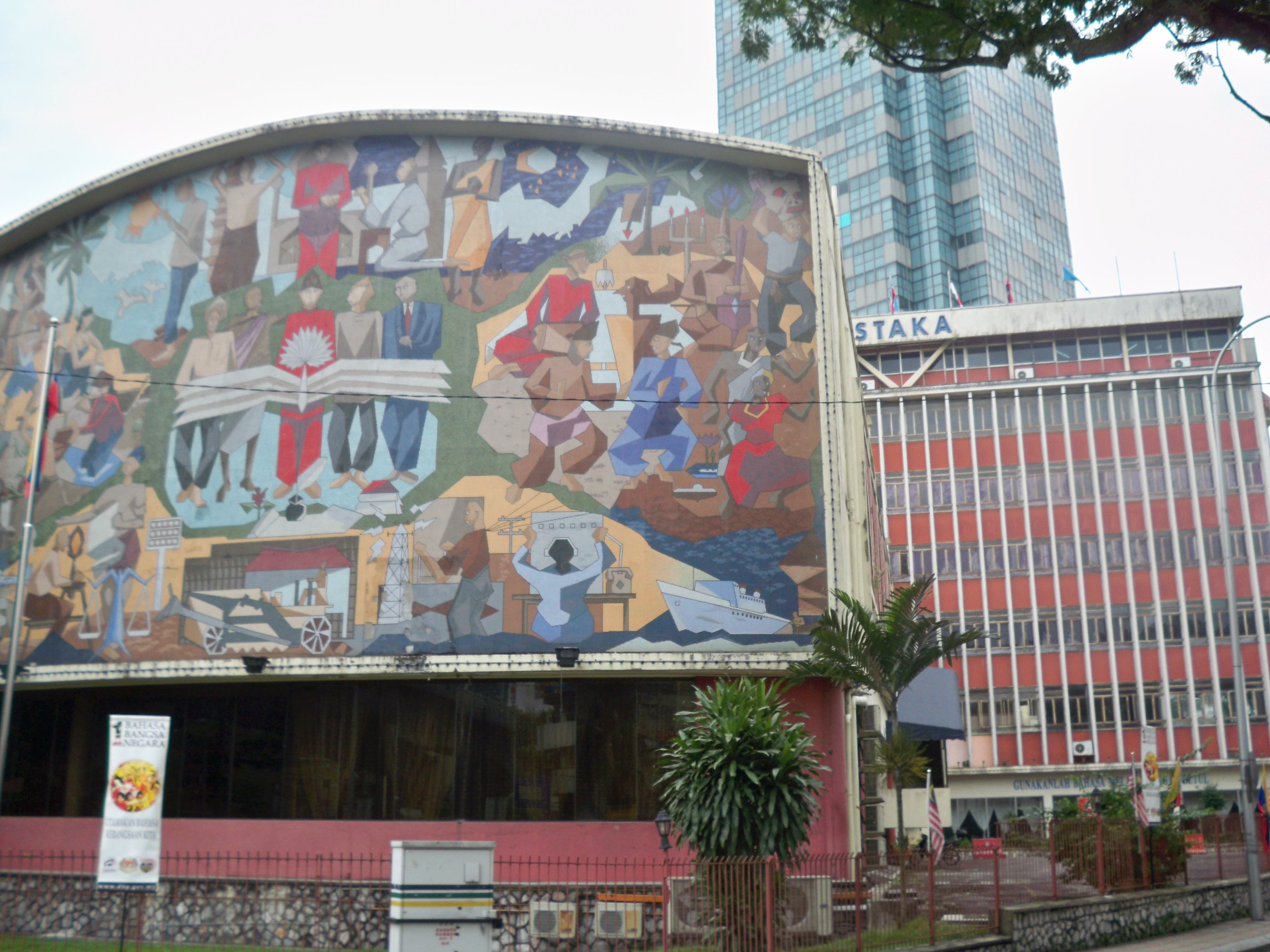 Dewan Bahasa dan Pustaka